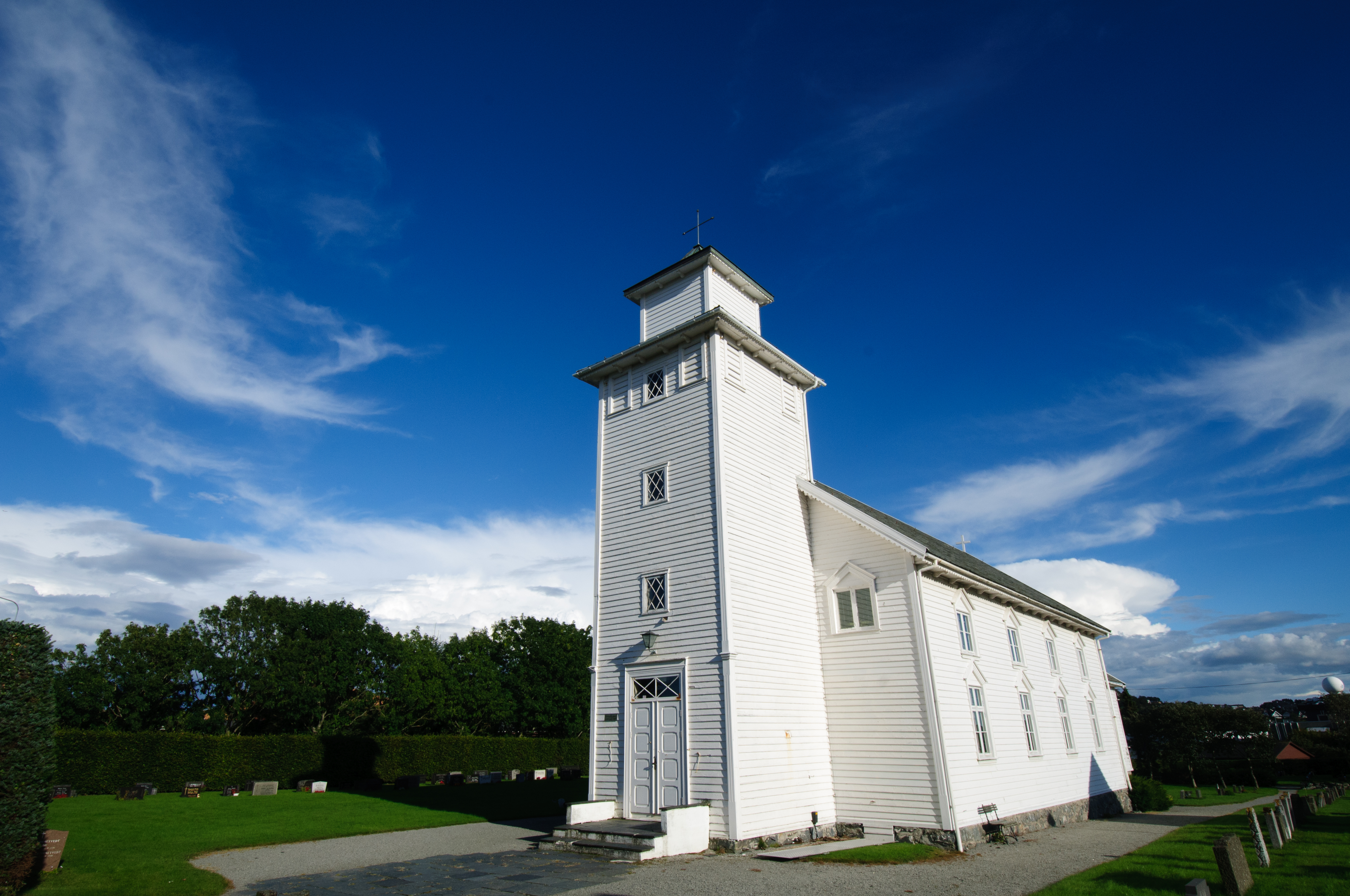 Tananger kapell Sola kommune